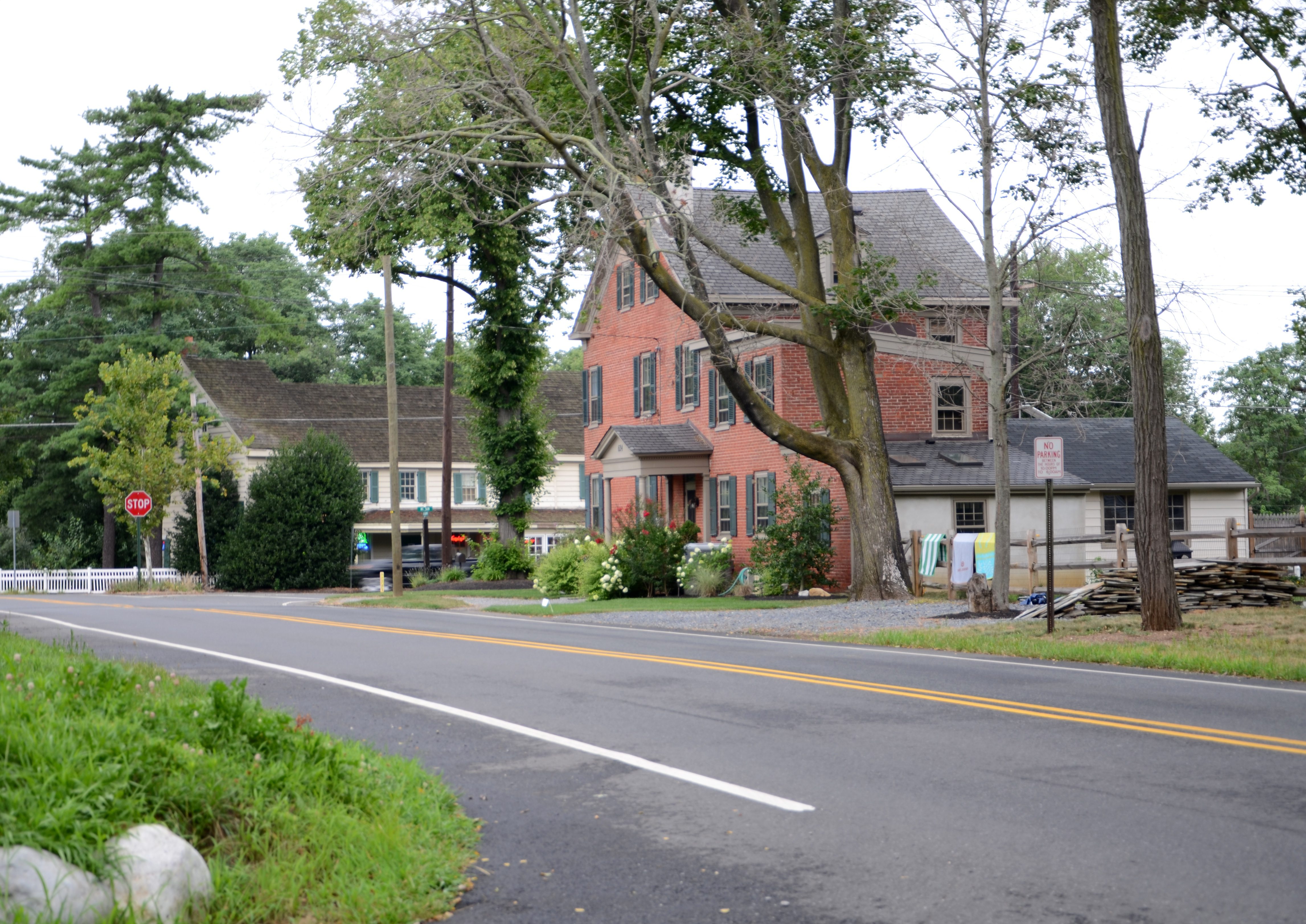 Chesterfield Township, Burlington County, New Jersey USA - intersection of Bordentown-Chesterfield Road and Chesterfield Road (Route 677).